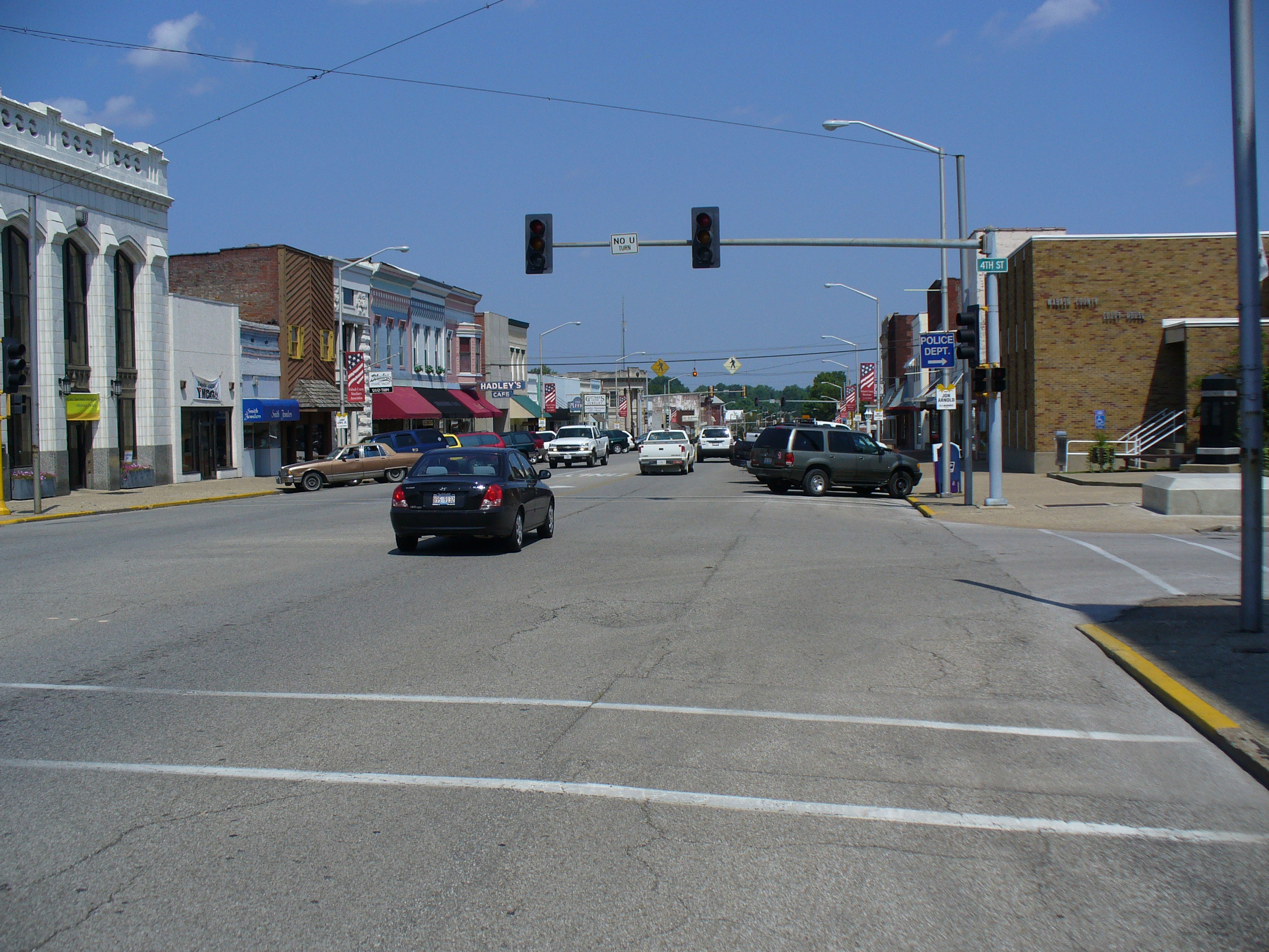 Mount Carmel, Illinois, United States from the middle of Market St. and 4th, the day before Ag Days 2007